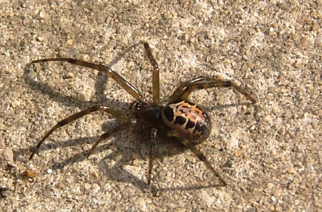 Steatoda Nobilis, Hampshire, England